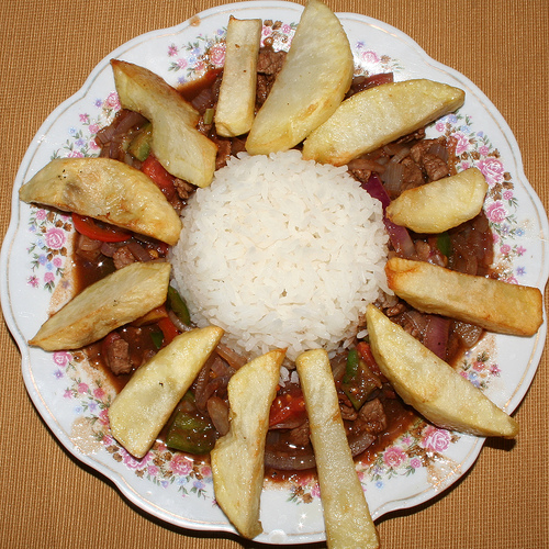 Lomo Saltado is a Peruvian cuicine with Chinese influence. Beef and vegetable stir fry is served with rice and French Fries on top.